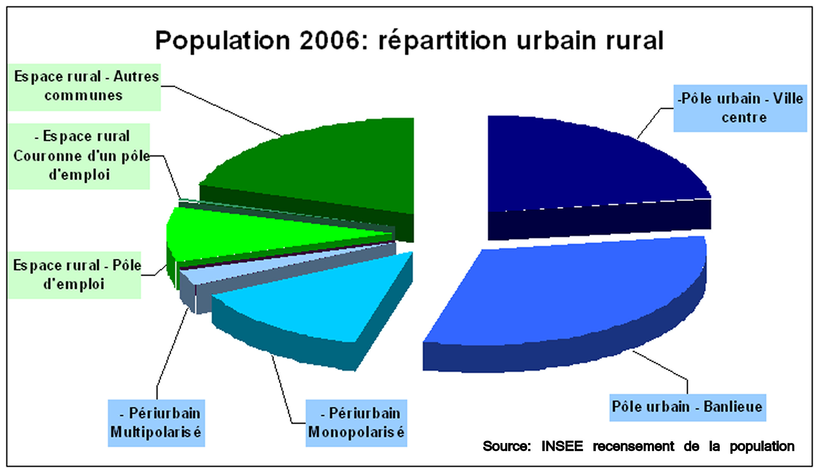 Diagram showing the breakdown of the population of Aquitaine between rural and urban